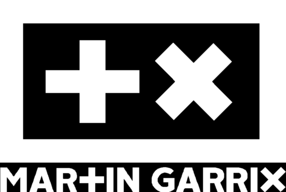 Martin Garrix's Logo (2015)